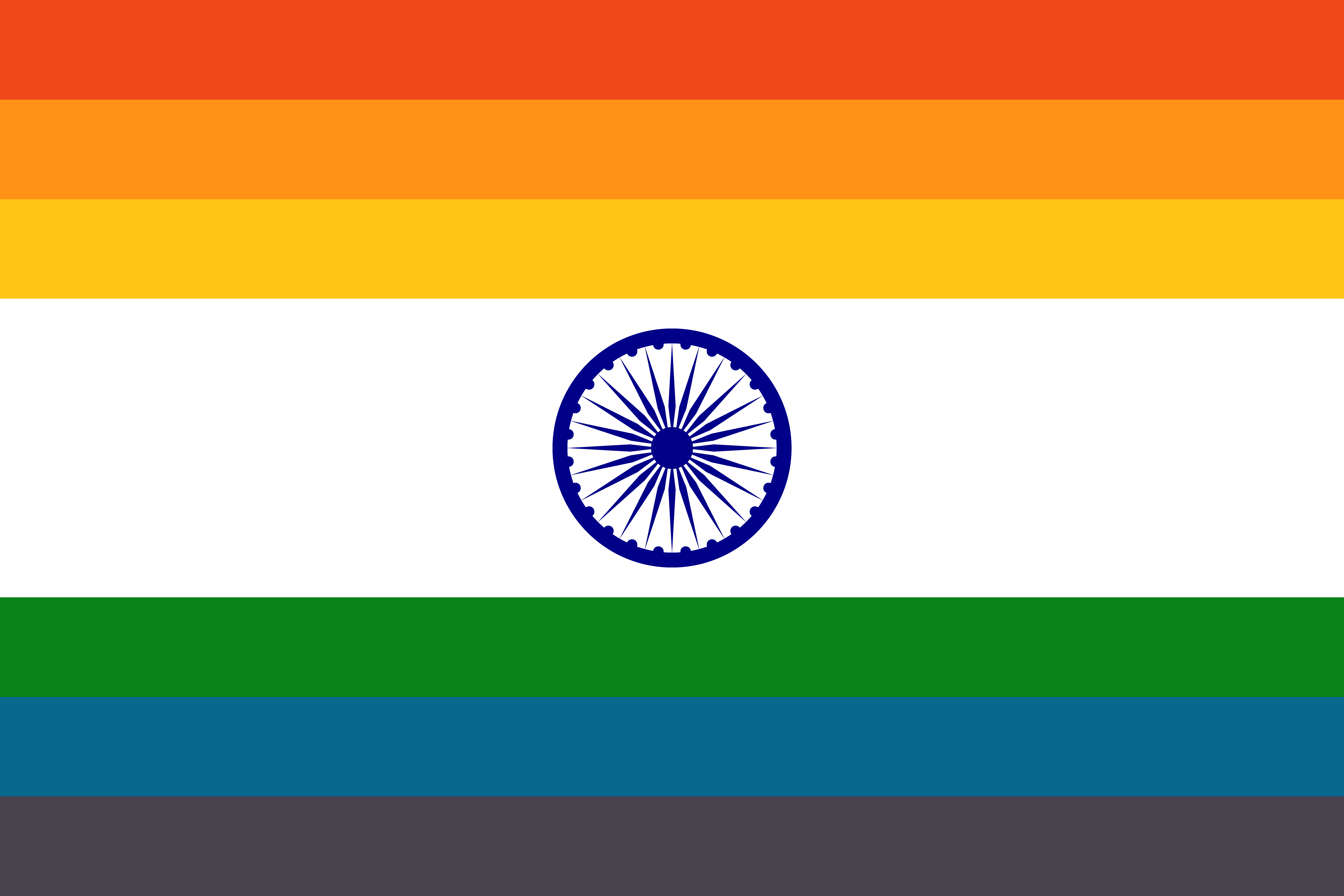 This is a design of the LGBT pride flag designed when section 377 of the Indian constituition was was read down. This can be used to represent the LGBT people of India (unofficially)